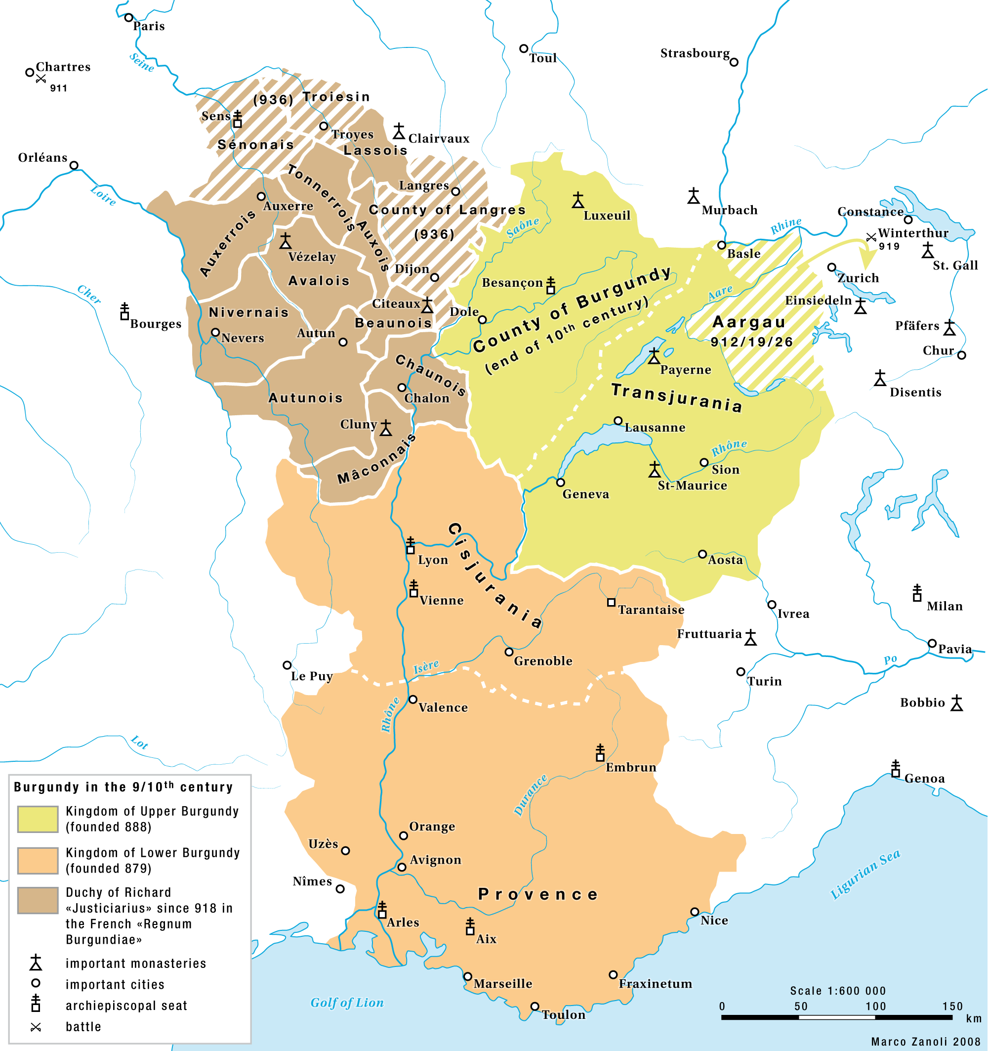 Burgundy in the 9th and 10th century: The kingdoms of Upper-Burgundy, Lower-Burgundy and the Duchy of Richard the Justiciar in the French part of the old Burgundian Kindom.